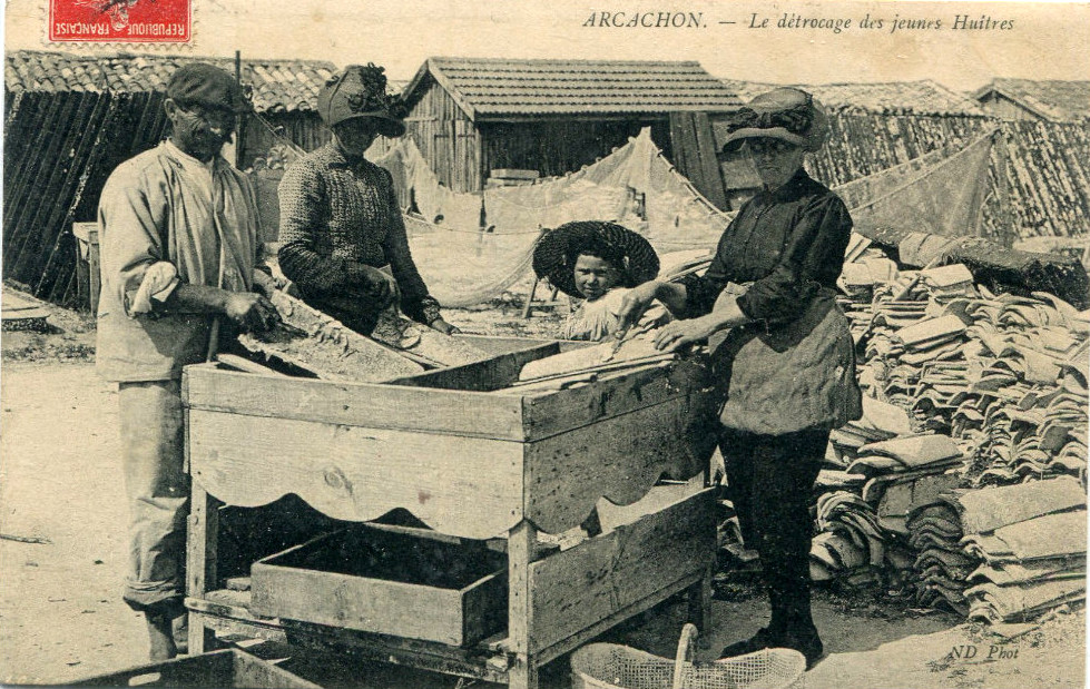 Oyster culture at Arcachon